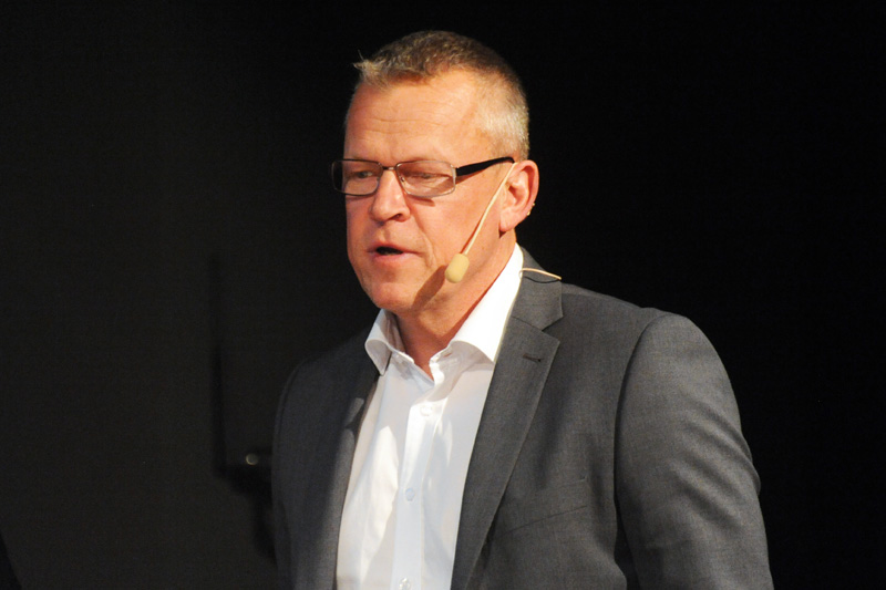 Jan Andersson